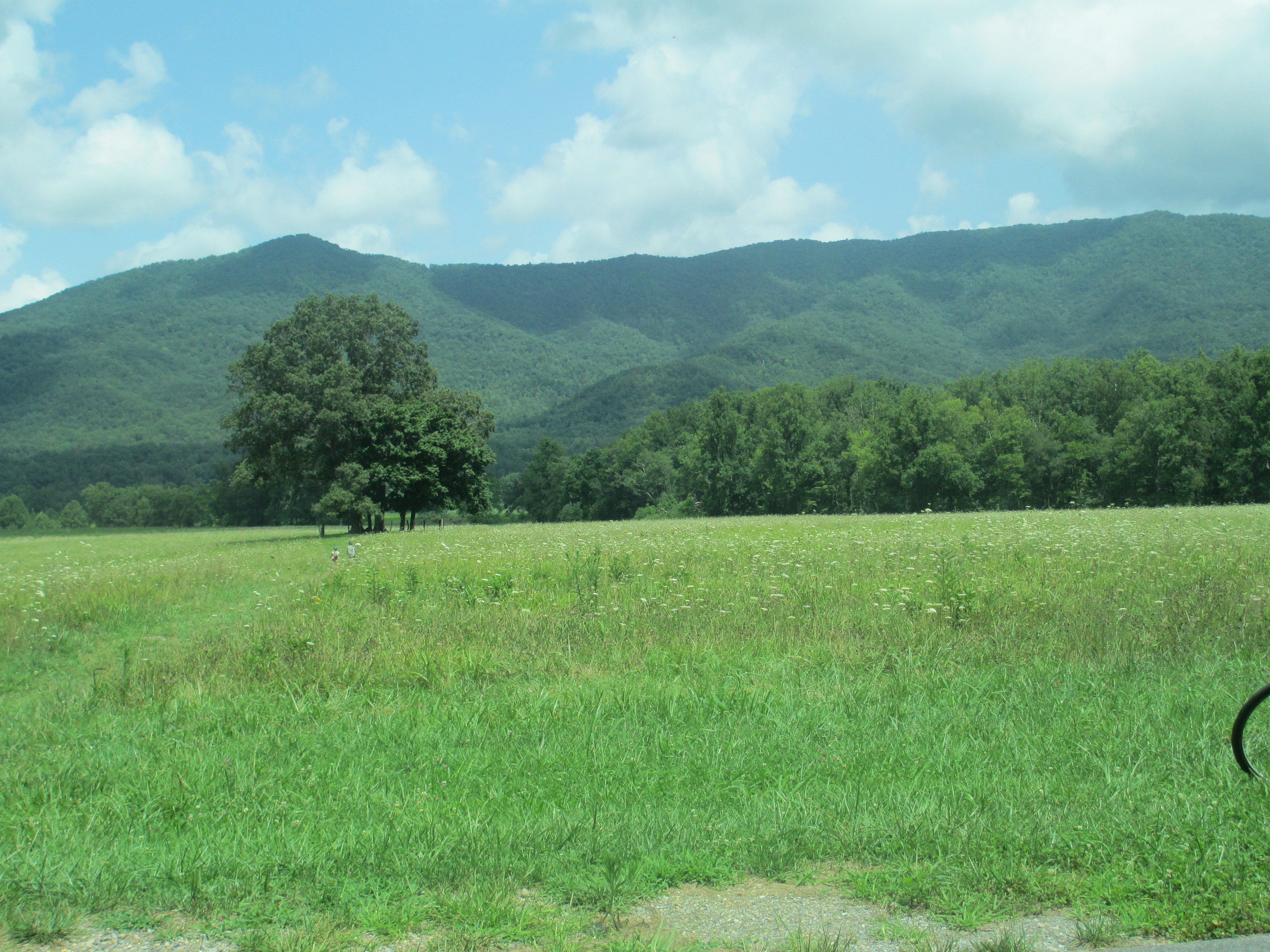 I took photo of Cades Cove scenic view with Canon camera.